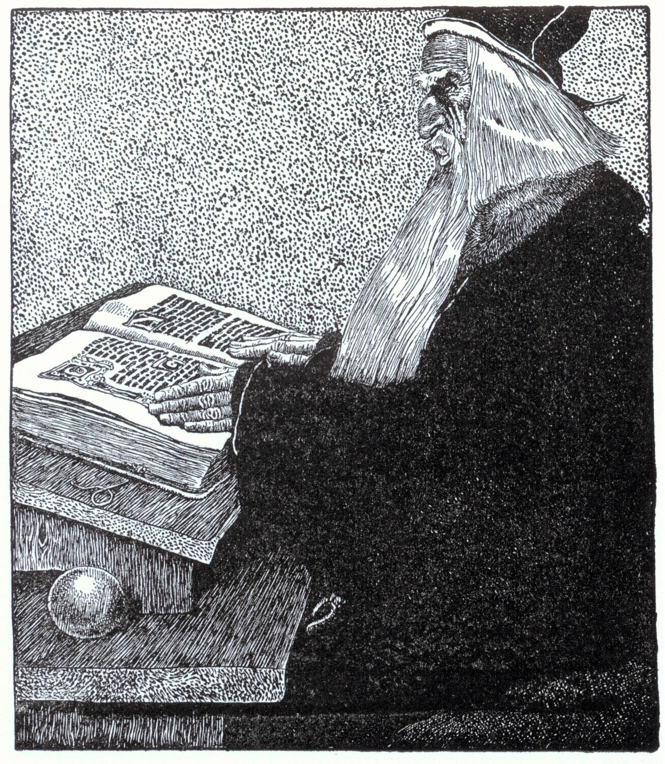 Howard Pyle illustration from the 1903 edition of The Story of King Arthur and His Knights scanned and archived at where it was marked as Public Domain.